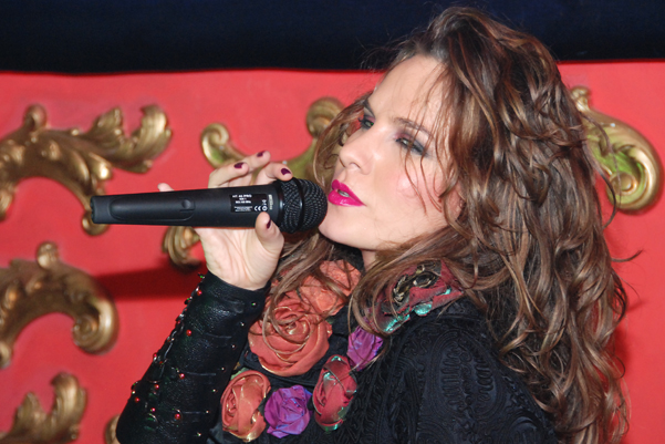 Anna Lesko in 2008